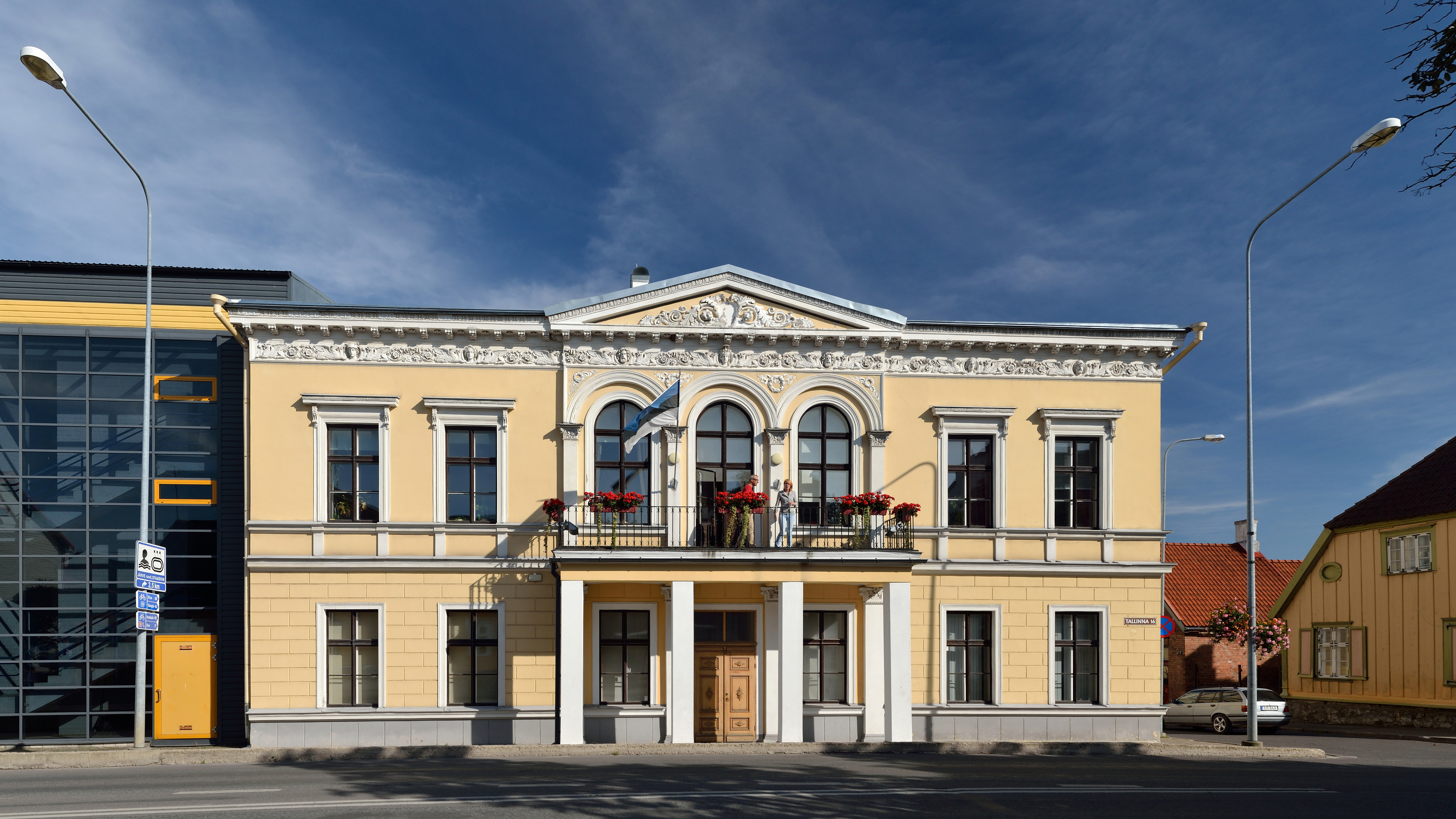 House in Viljandi, Tallinna st 6. Built 1852–1868.